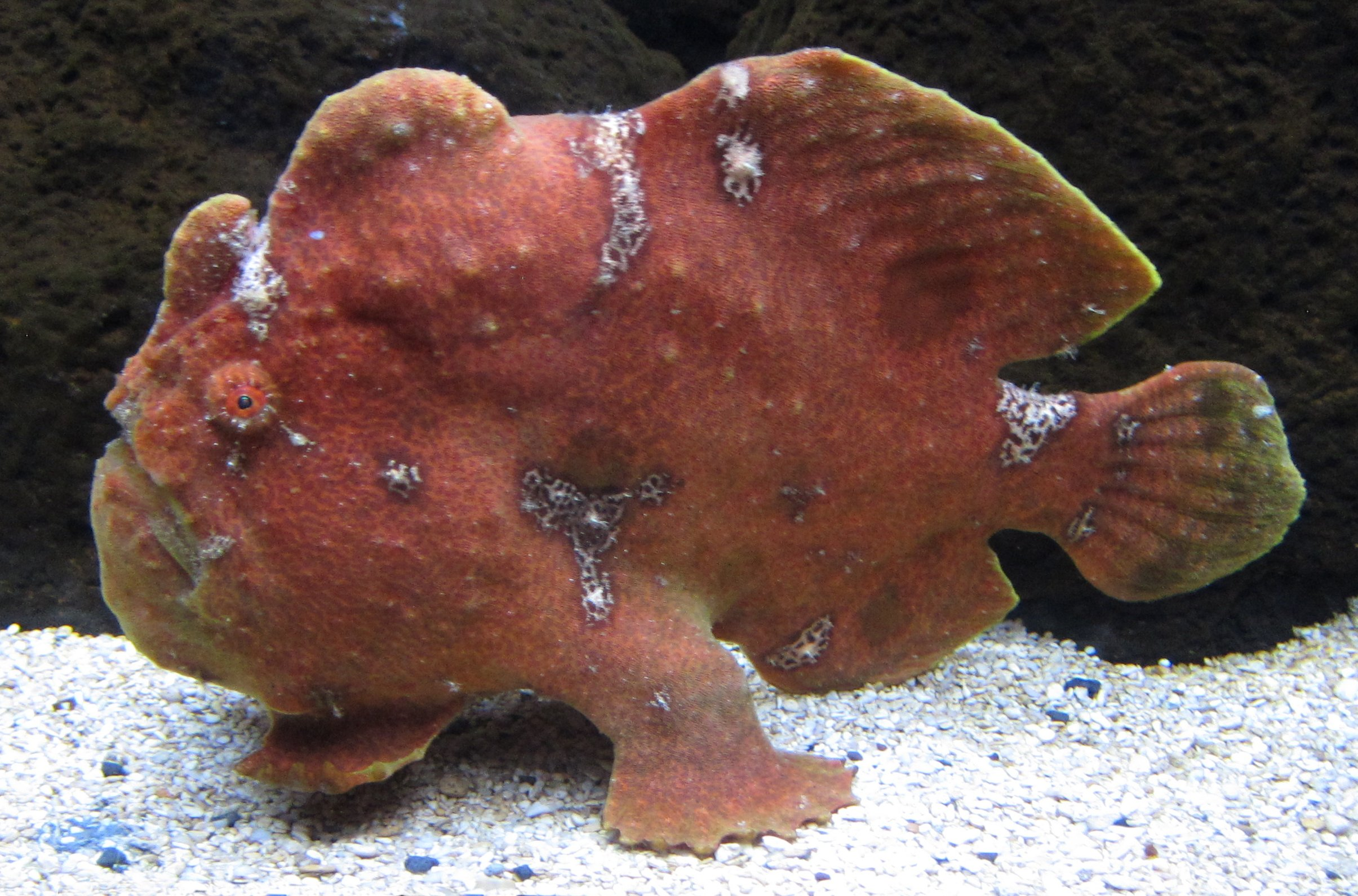 Commerson's frogfish (Antennarius commerson) in Waikiki Aquarium